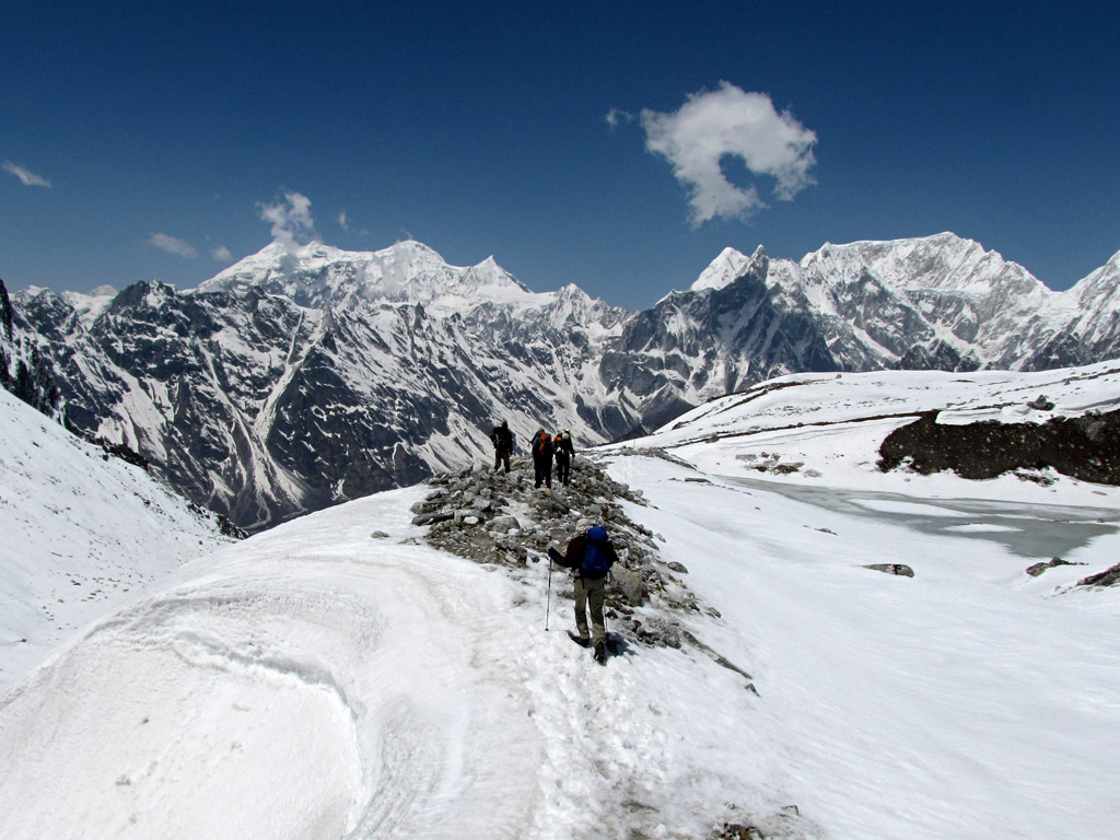 Summit of pass, Manaslu circuit, Nepal